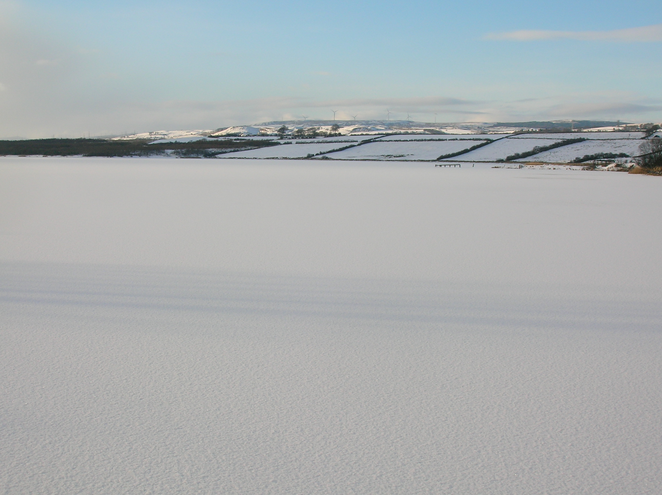 Kilbirnie Loch from near the Dubbs Water in the unseasonal cold-snap of 2010. Beith, North Ayrshire, Scotland. The site of the Flax rhetting pond is visible as a patch of rushes